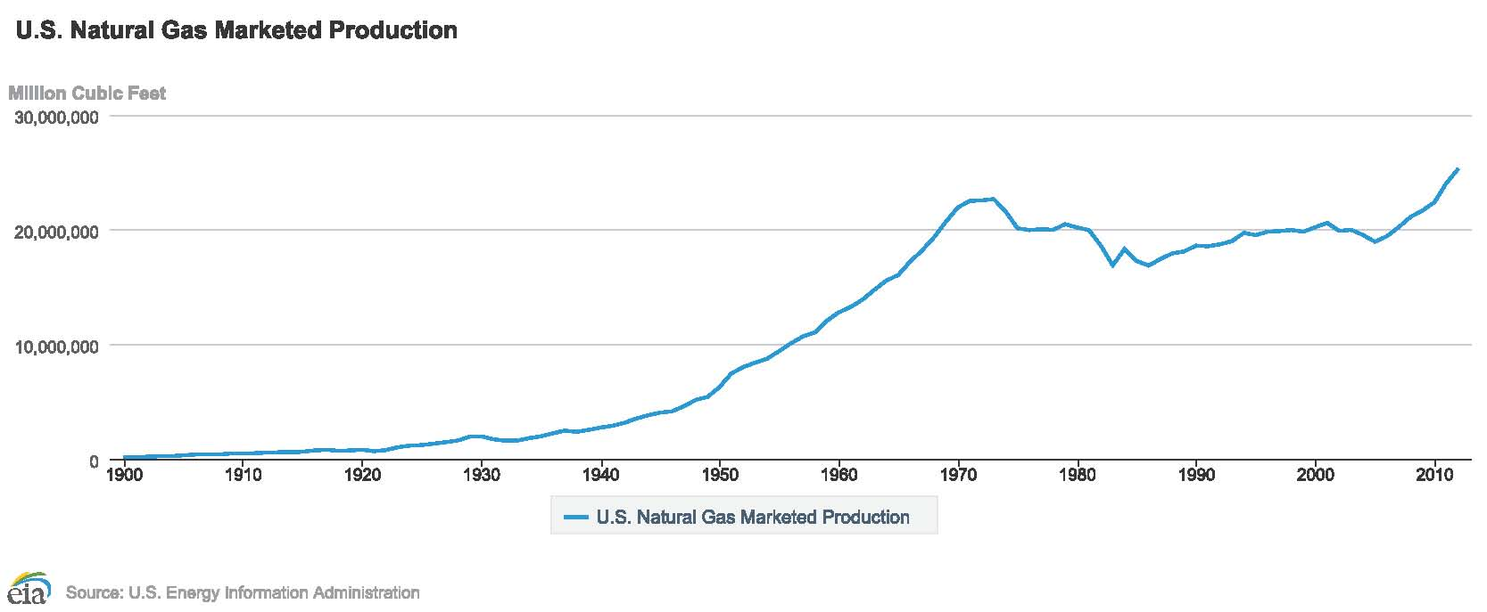 Graph of US marketed natural gas production, 1900-2012